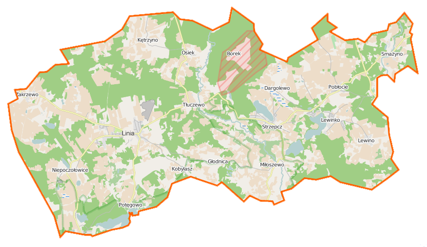 Map of Gmina Linia, Poland This map of Linia (gmina) was created from OpenStreetMap project data, collected by the community. This map may be incomplete, and may contain errors. Don't rely solely on it for navigation.